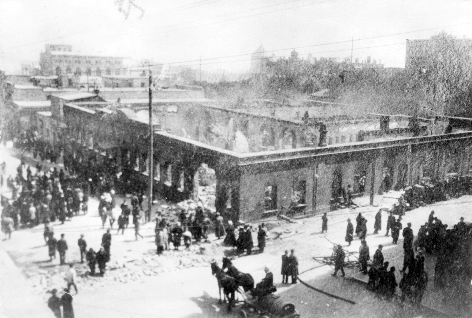 The building of the editorial office of Kaspi newspaper on Nikolayevskaya street (modern day Istiglaiyyet street), ruined during the March days in 1918. State Photo Archives of Azerbaijan republic.